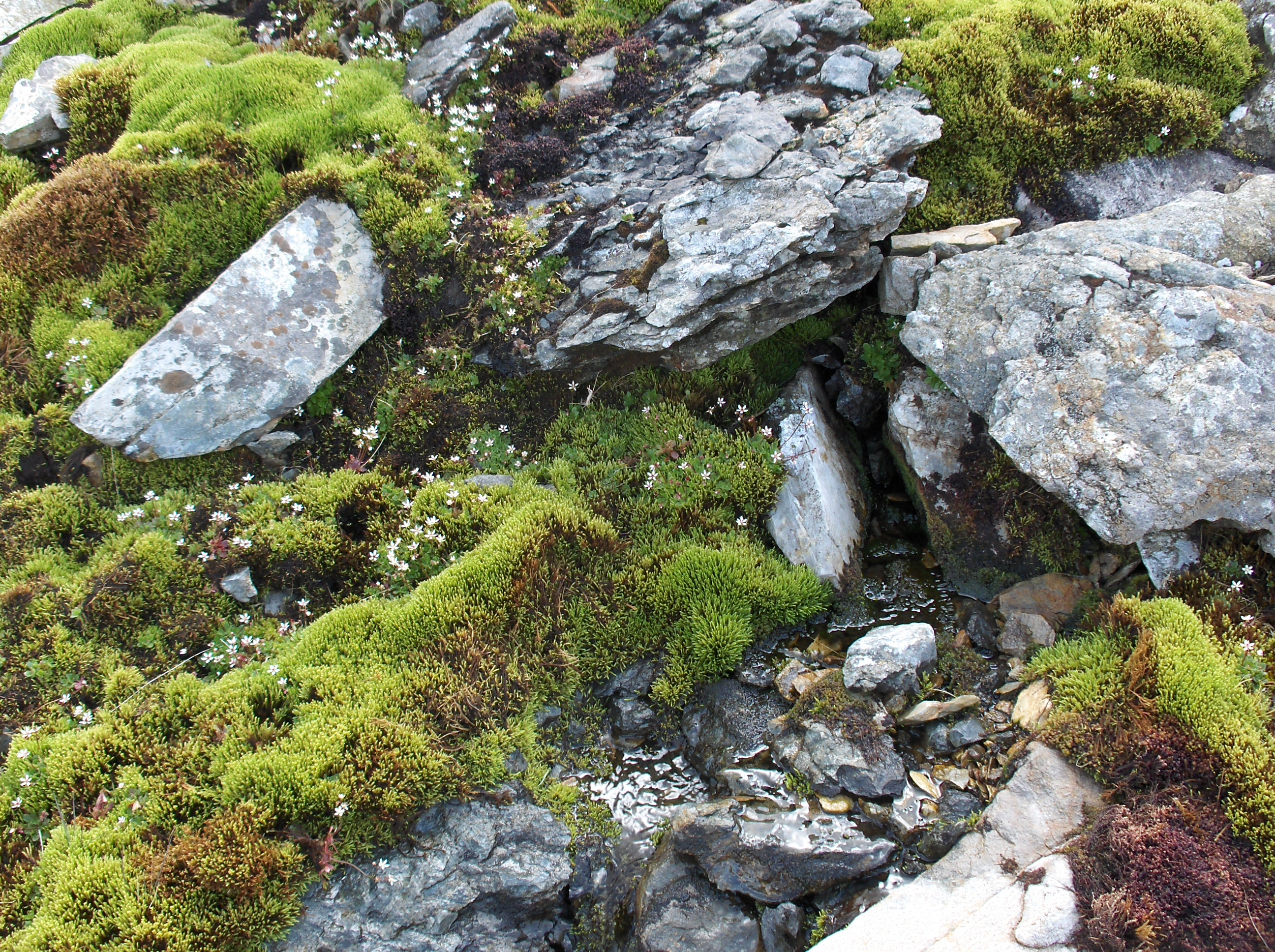 Habitat of Saxifraga stellaris subsp. stellaris in Cwm Brwynog, Snowdonia, Wales.